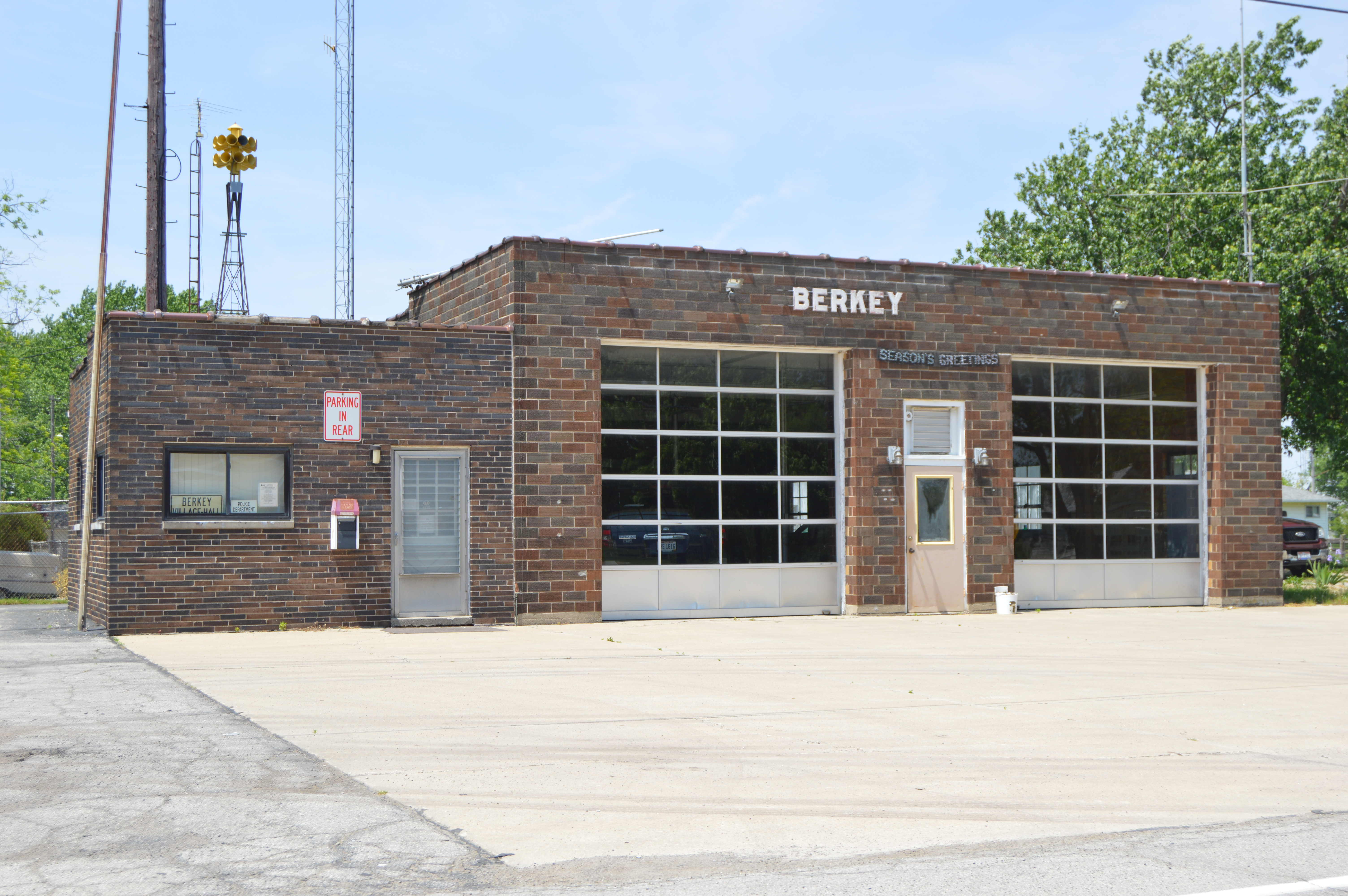 Front of the Berkey village hall, located at 5817 State Route 295 in Berkey, Ohio, United States.